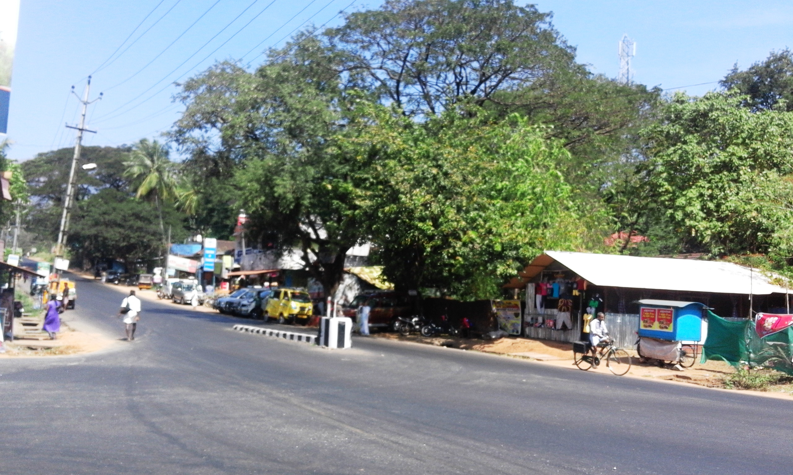 Mundur, Palakkad District, South Malabar Region, Kerala State, India.